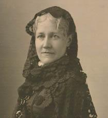 Harriet Elizabeth Prescott Spofford, photograph by Brown Brothers, New York.